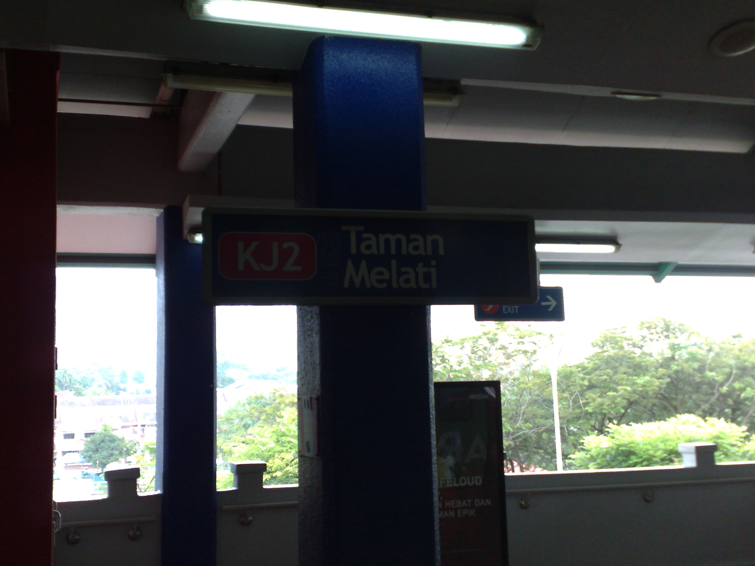 Taman Melati LRT